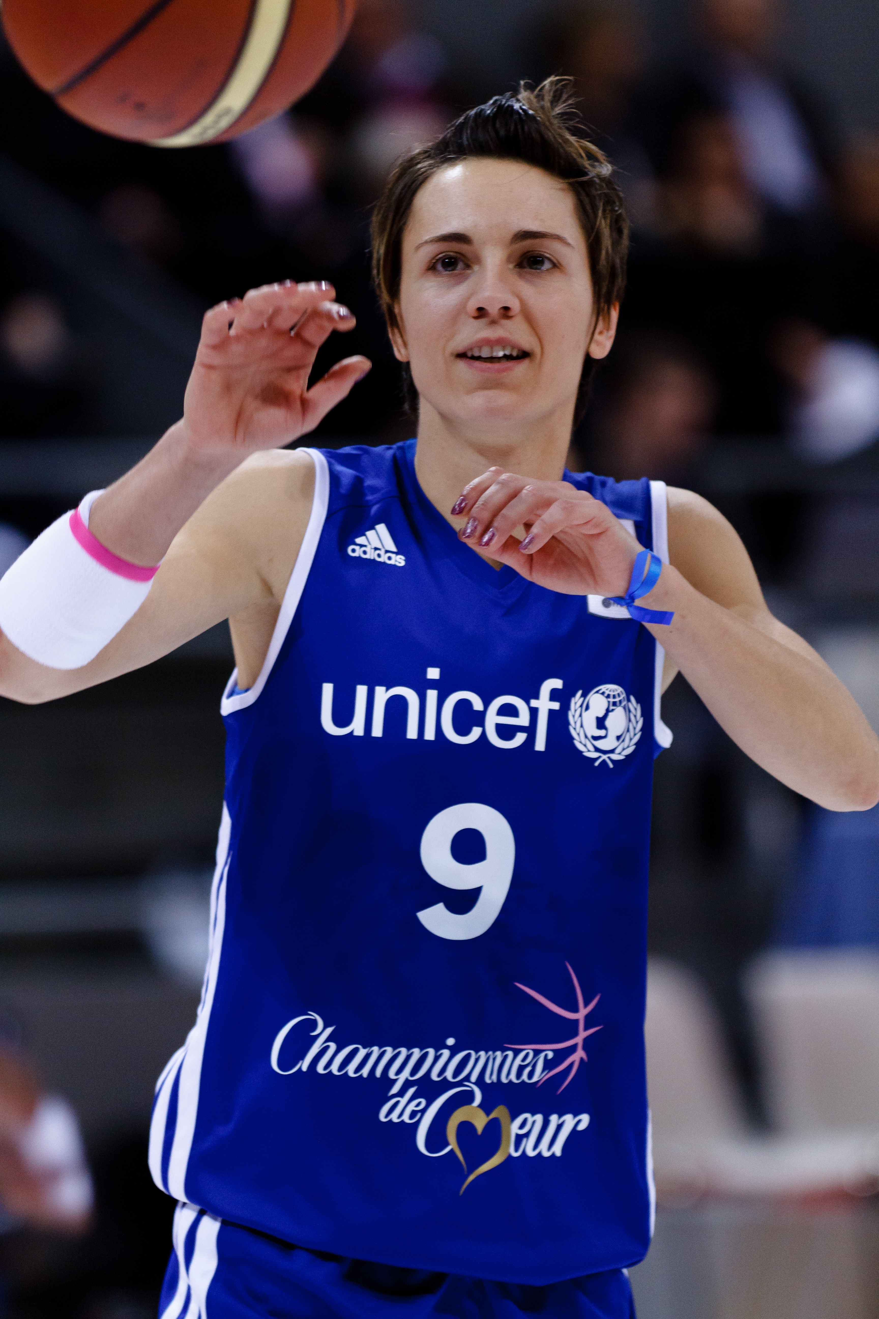 Céline Dumerc, during exhibition game Championnes de cœur in Toulouse.